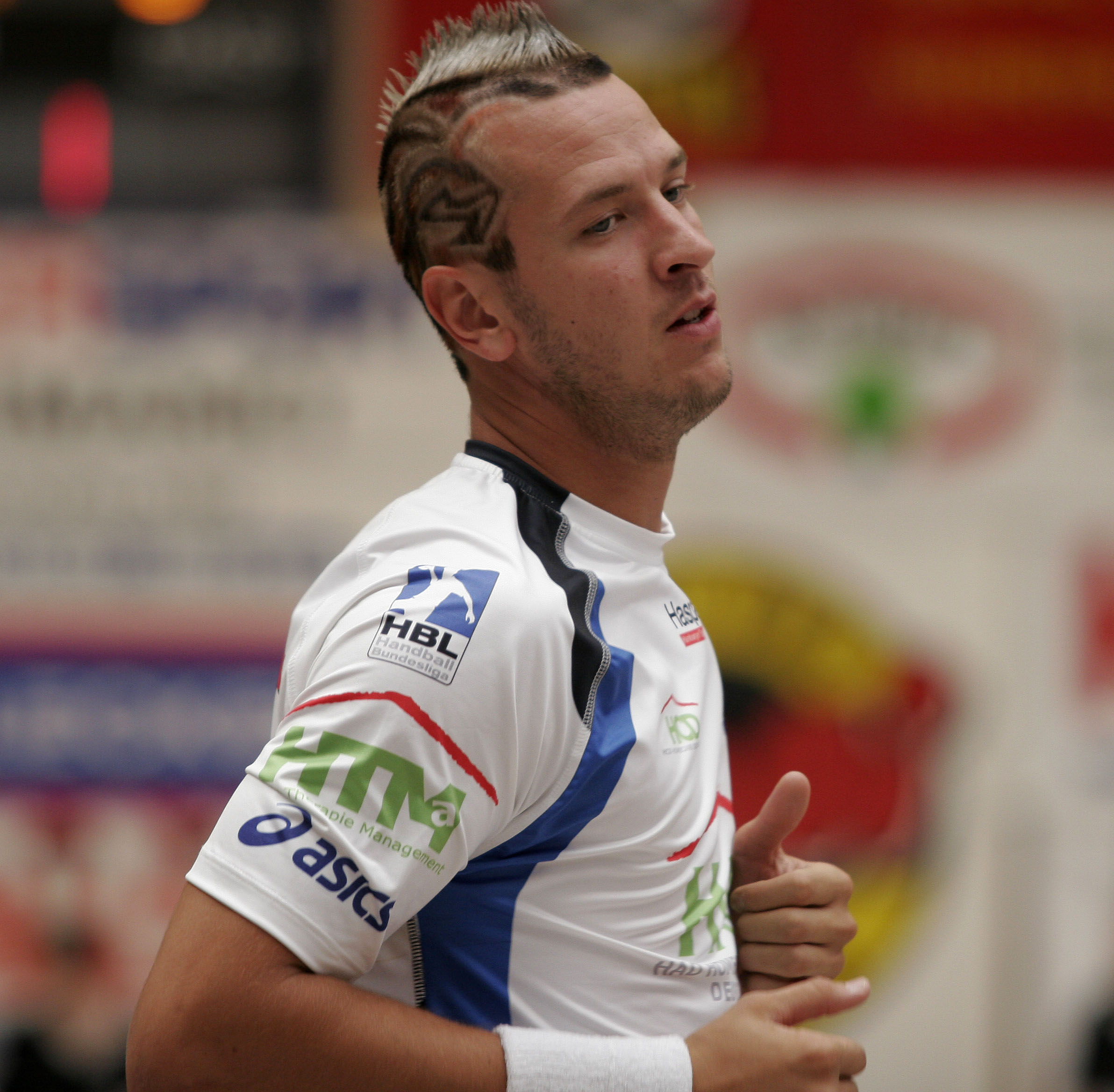 Pascal Hens, German Handball player from HSV Hamburg, during the Schlecker Cup 2007 in Ehingen (Germany)